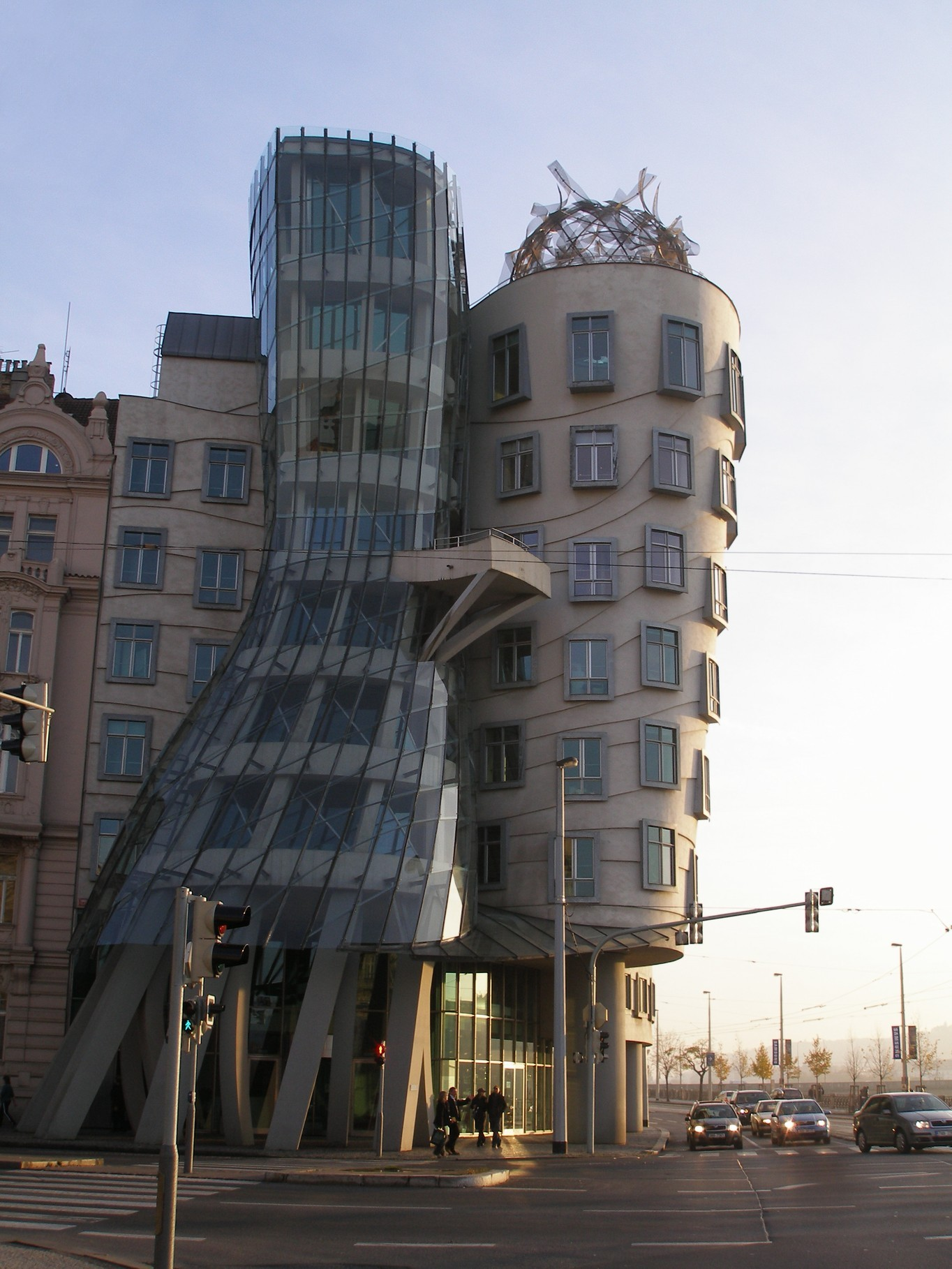 Dancig House of Prague